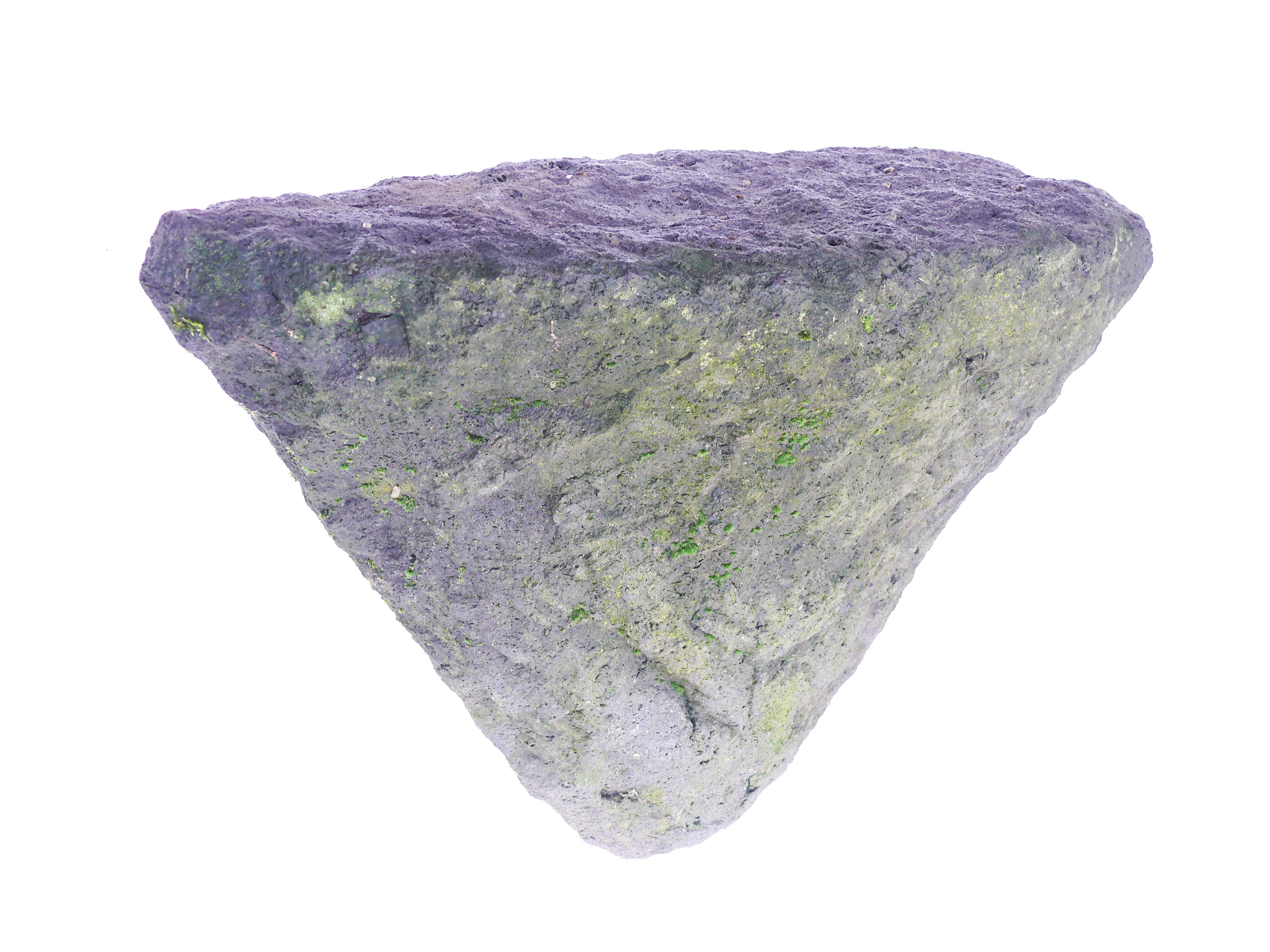 Millstone from the La Tène culture made of basalt